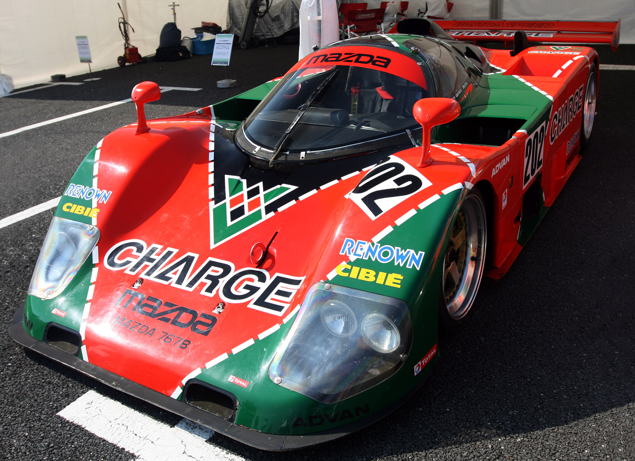 Motorsport Japan 2008: the Mazda 767B